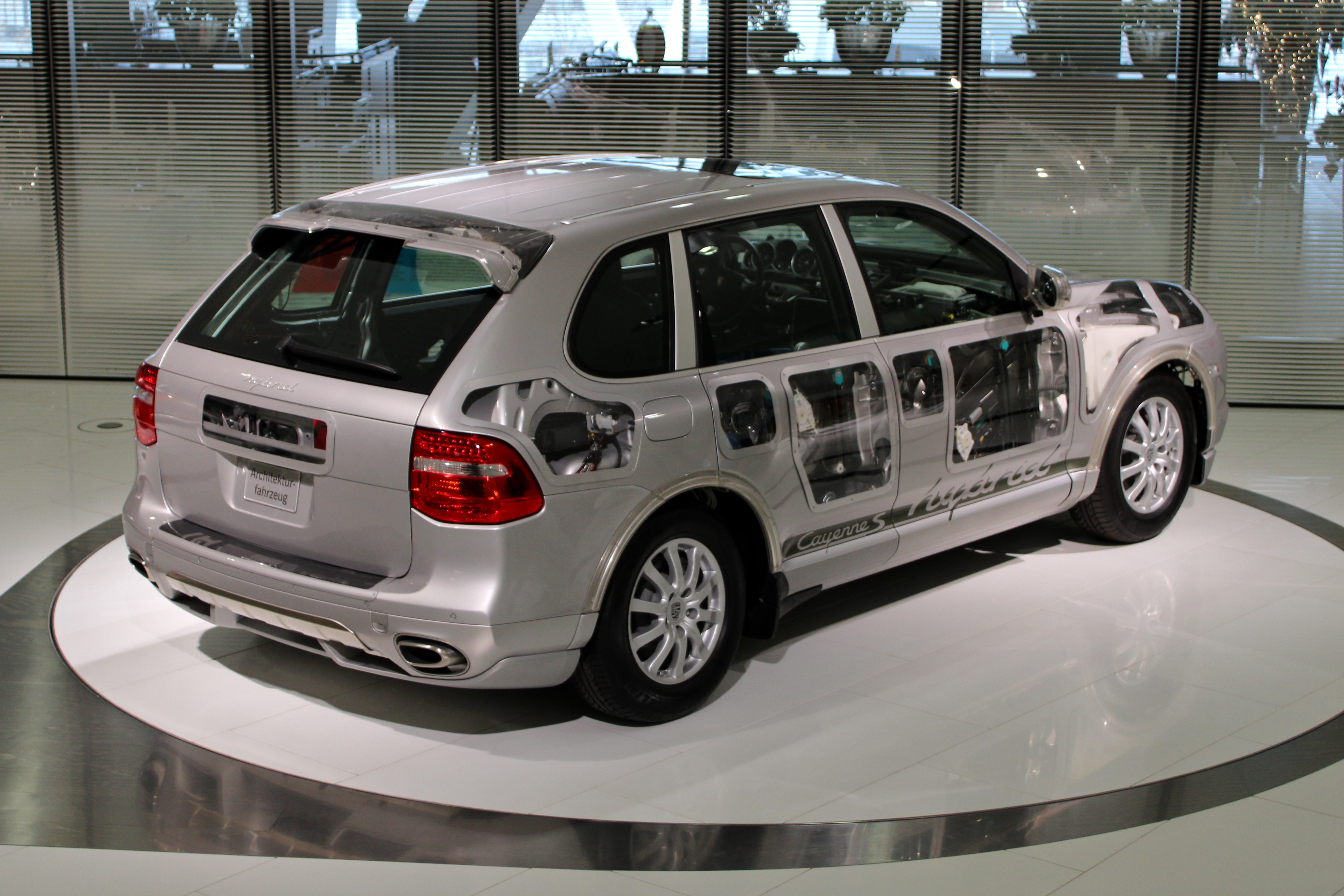 Porsche Cayenne S Hybrid Concept at Porsche Museum 2018